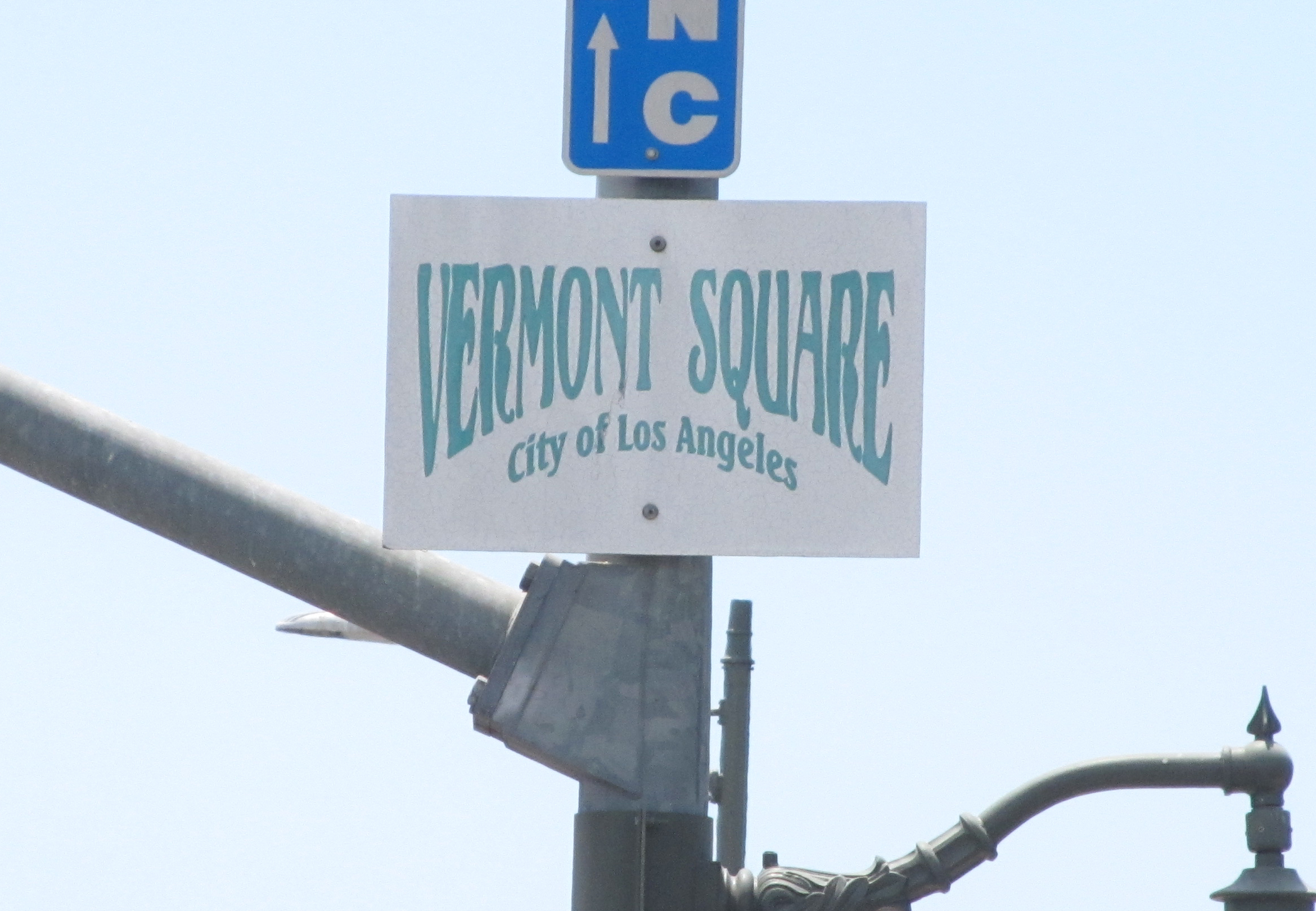 Non-city signage for Vermont Square located at Vermont Avenue and King Boulevard